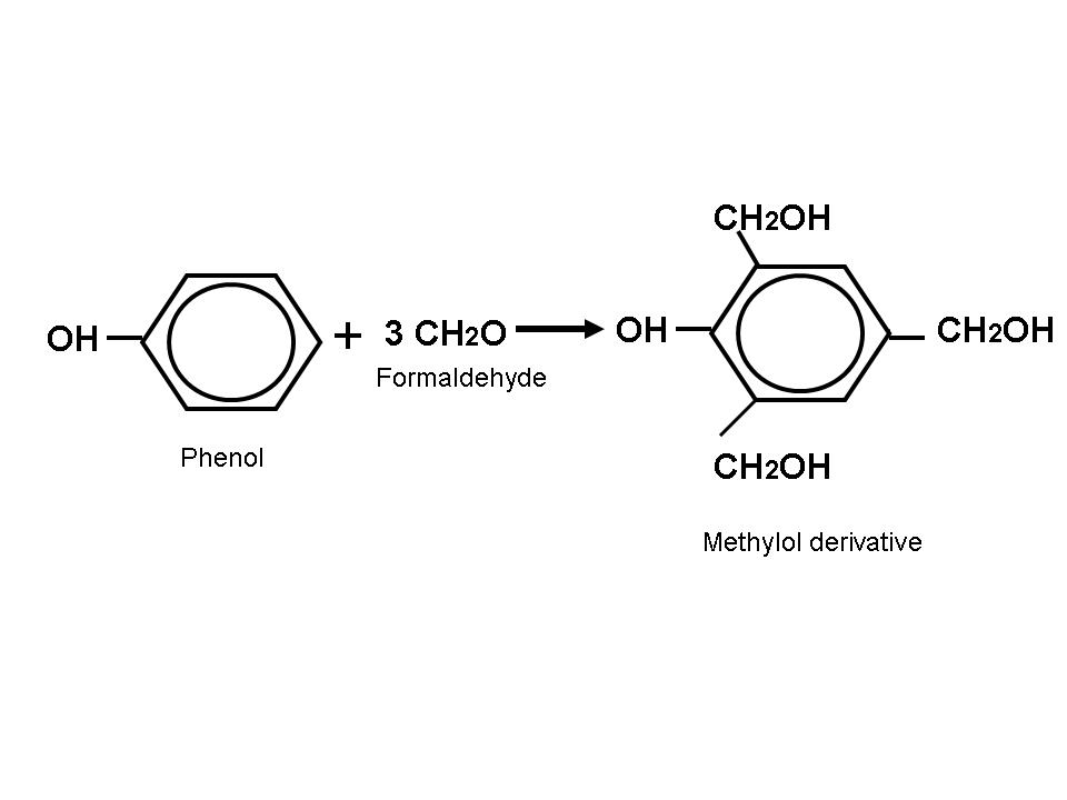 Methylolation